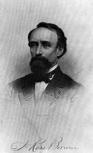 Portrait of John Ross Browne (1821-1875) — an Irish-born American traveler, artist, writer, and government agent. Contributor to Harper's Magazine, including the 1860s "A Peep at Washoe" series.